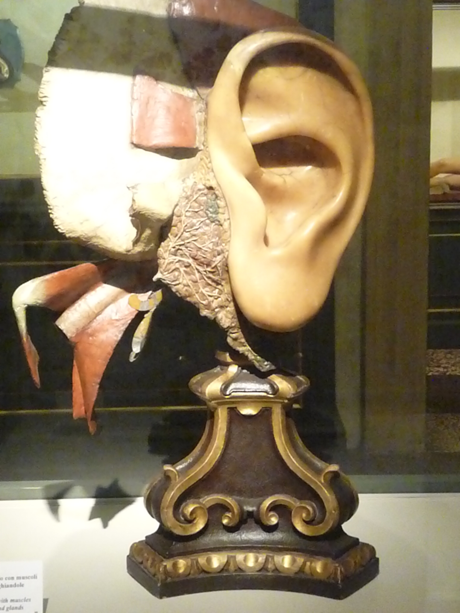 Anna Morandi Manzolini, ear, waxmodel